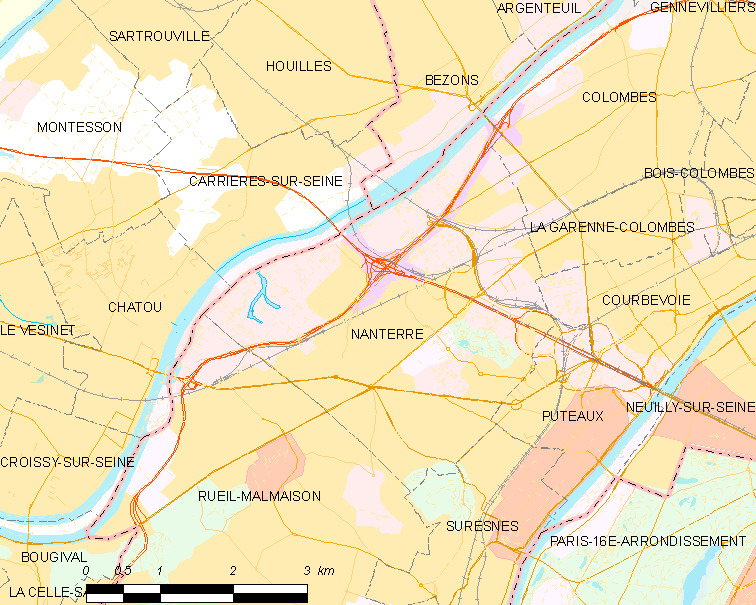 Map of French municipality Nanterre